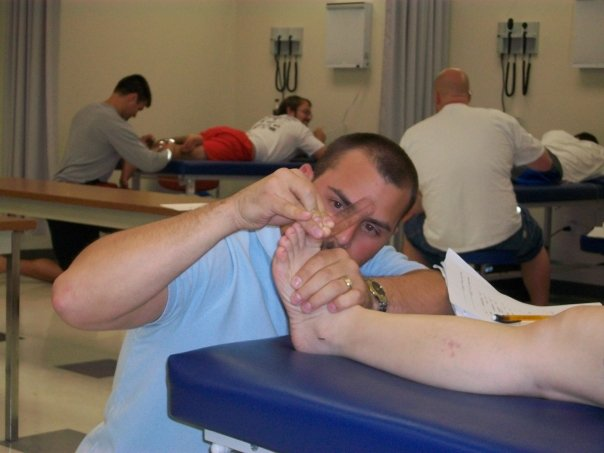 Podiatrist examining hallux